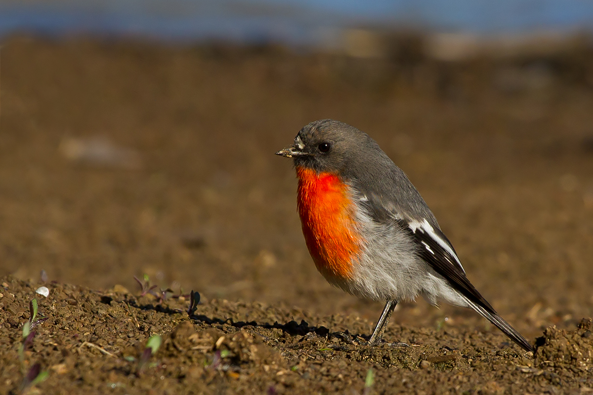 Crusoe Reservoir, Kangaroo Flat Vic. I was very happy to get a photo of one of these not on a fence!